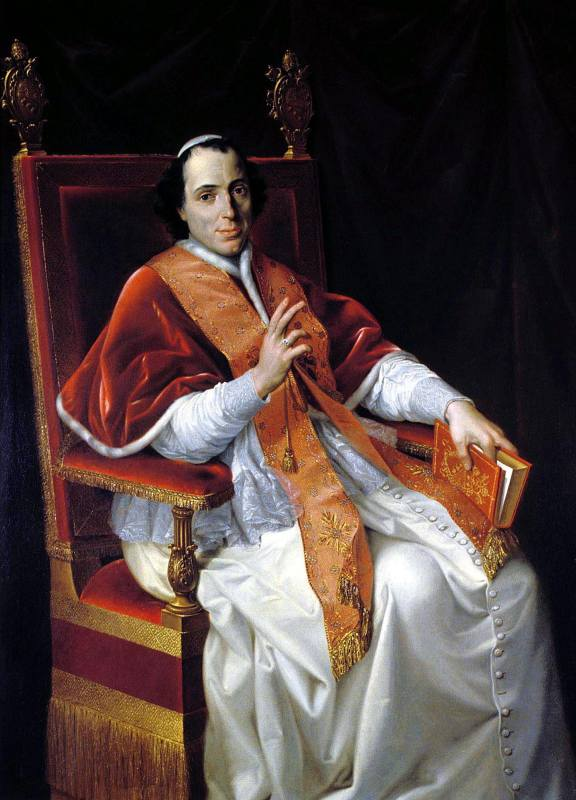 Portrait of Pius VII with papal mozzetta and stole.